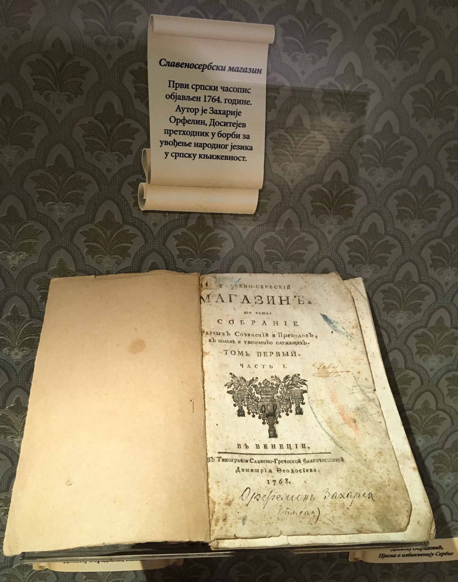 The first Serbian magazine by Zaharije Orfelin, published in 1764, printed in Venice, Museum of Vuk and Dositej Srpski (latinica): Prvi srpski magazin Zaharija Orfelina, 1764, štampan u Veneciji, Muzej Vuka i Dositeja u Beogradu